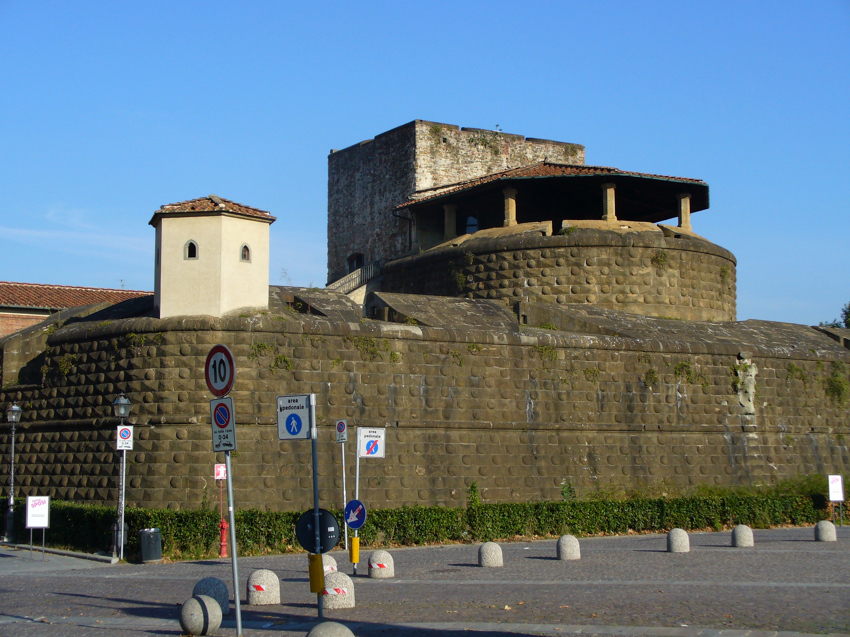 Fortezza da Basso (Firenze)